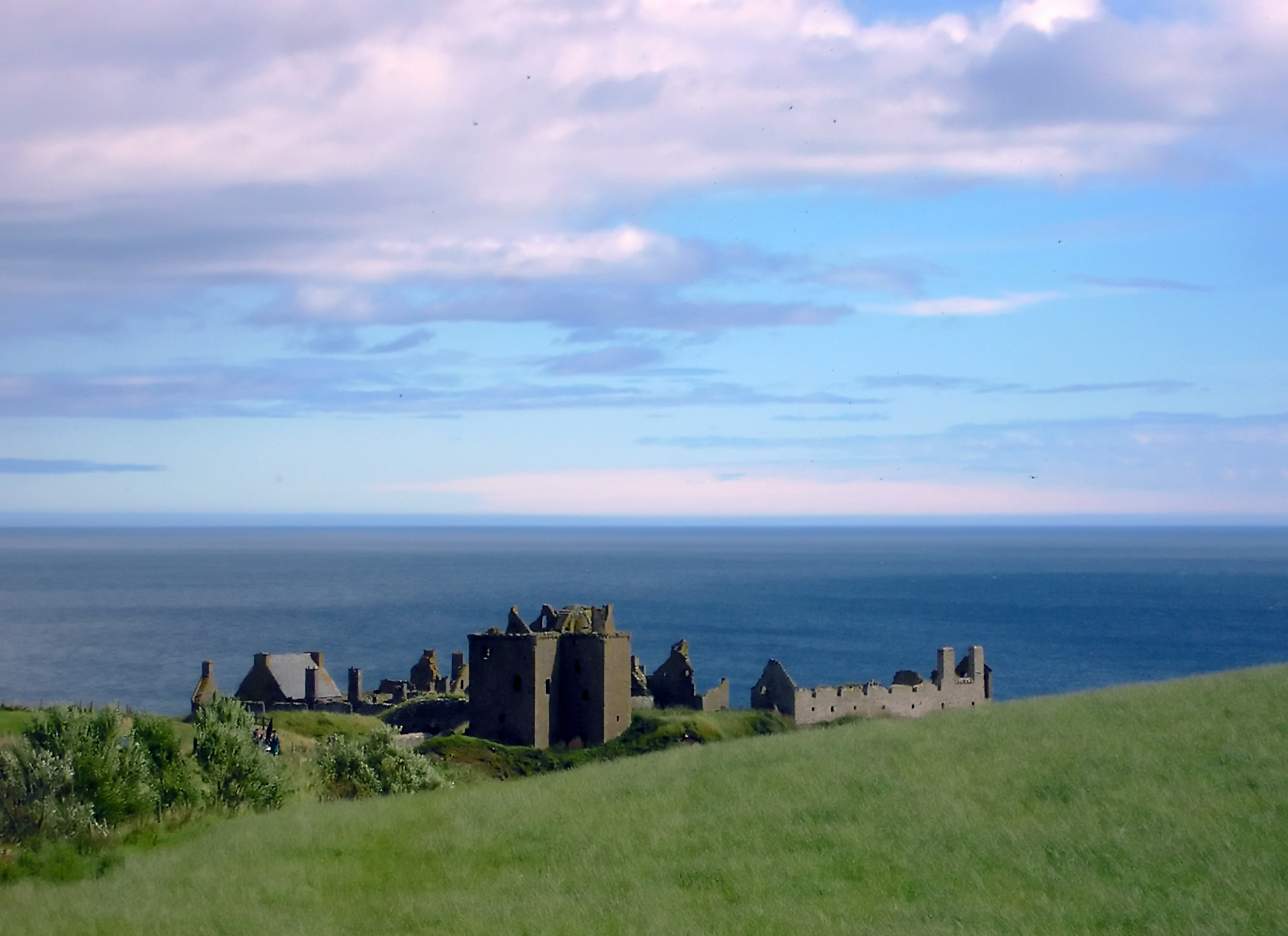 Dunnottar Castle, Angus, Scotland